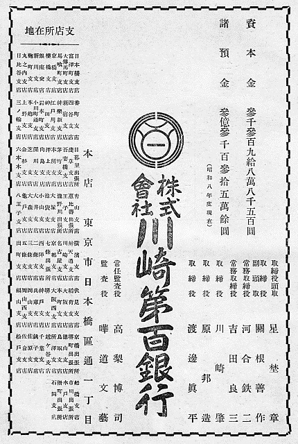 Kawasaki-Daihyaku Bank advertisement in 1930s